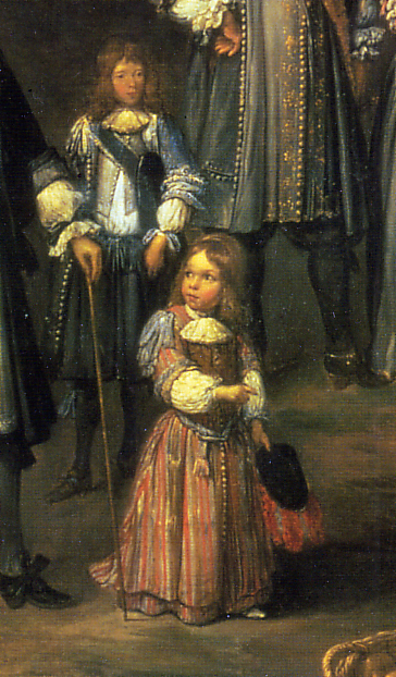 Detail of The Tichborne Dole